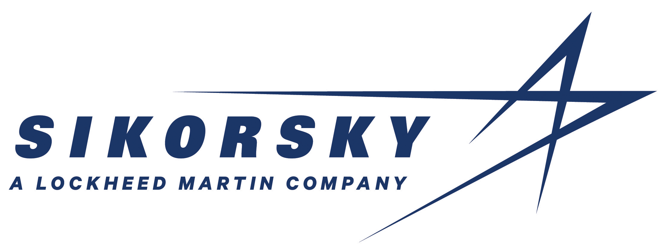 Sikorsky Aircraft logo